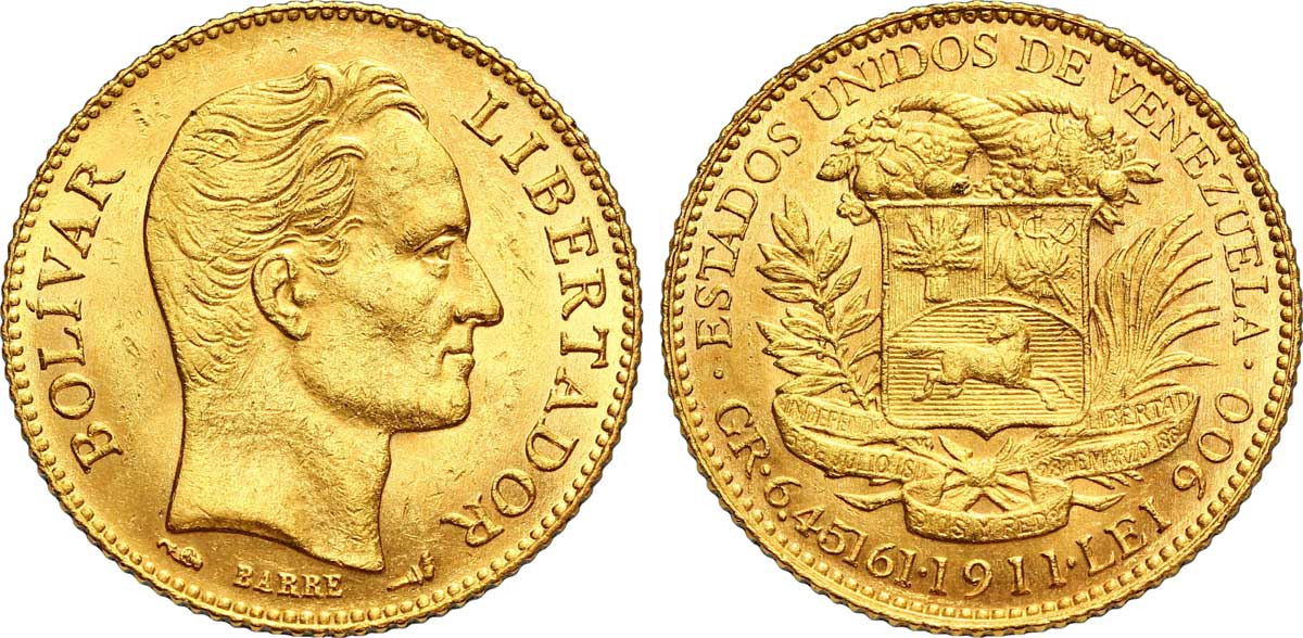 VENEZUELA, 20 Bolivares or à l'effigie de Simon Bolivar, 1911. Titulature avers : BOLIVAR - LIBERTADOR . Description avers : Tête nue de Simon Bolivar à droite. Description revers : Écu aux armes du Vénézuéla dans une couronne composite surmonté de cornes d'abondance entrecroisées déversant leurs fruits, entre une branche de laurier et une branche d'olivier ; au-dessous, un bandeau .